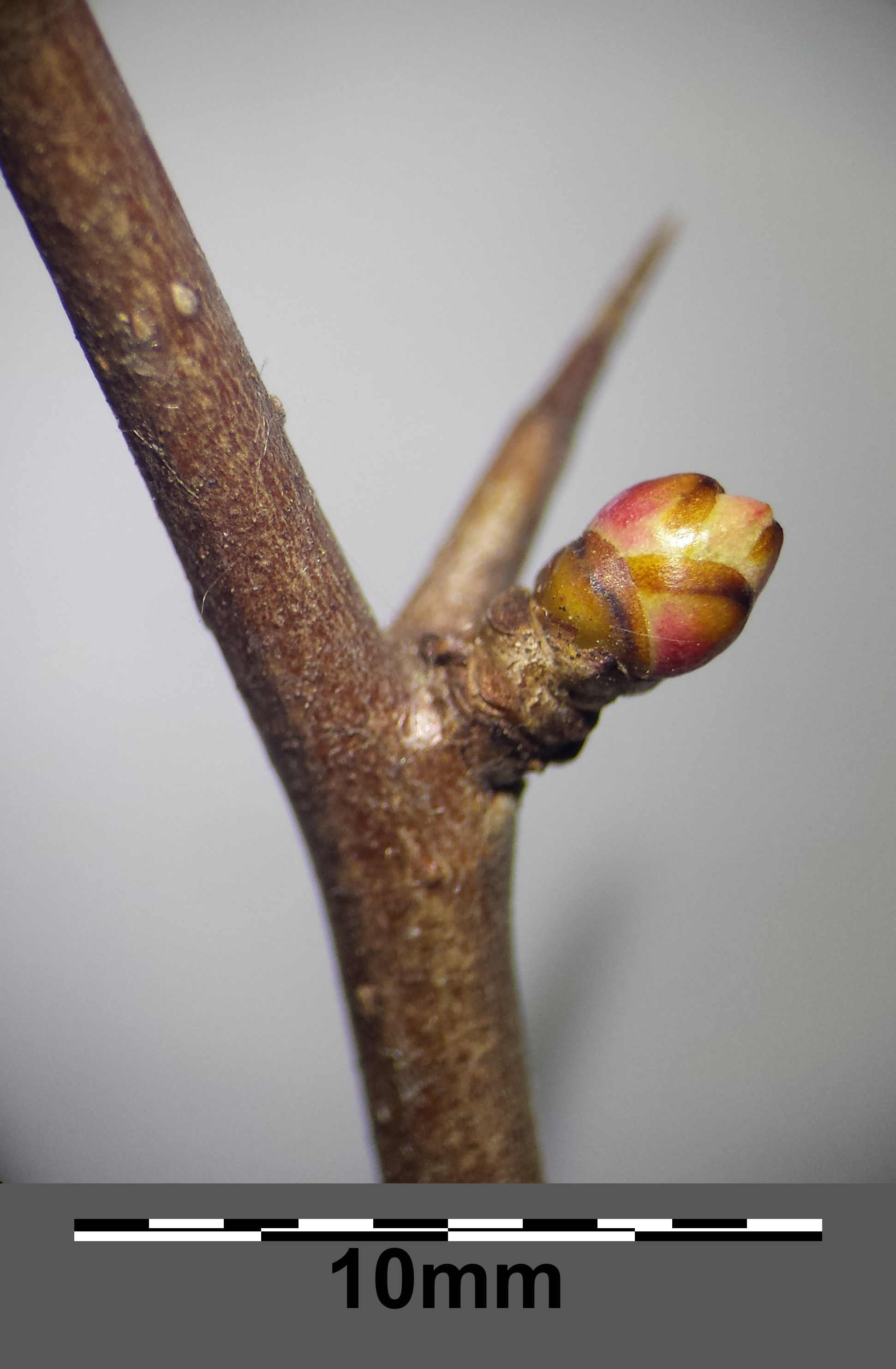 Short shoot with bud and spine Taxonym: Crataegus laevigata (subsp. laevigata) ss Fischer et al. EfÖLS 2008 ISBN 978-3-85474-187-9 Location: Rohrwald, district Korneuburg, Lower Austria - ca. 330 m a.s.l. Habitat: dedicious wood